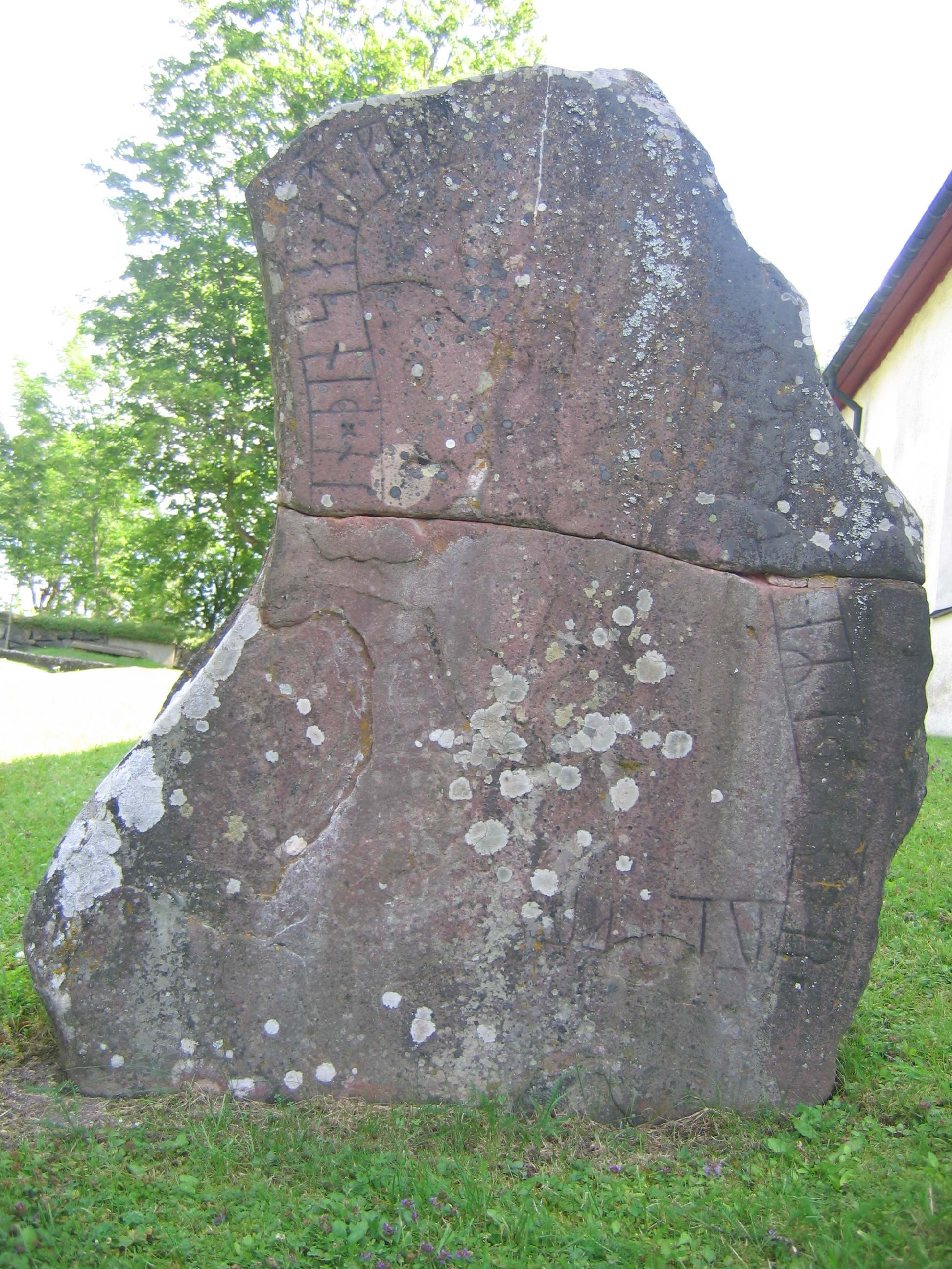 Runestone Sö 345 on the cemetery of Ytterjärna church, Södermanland, Sweden.